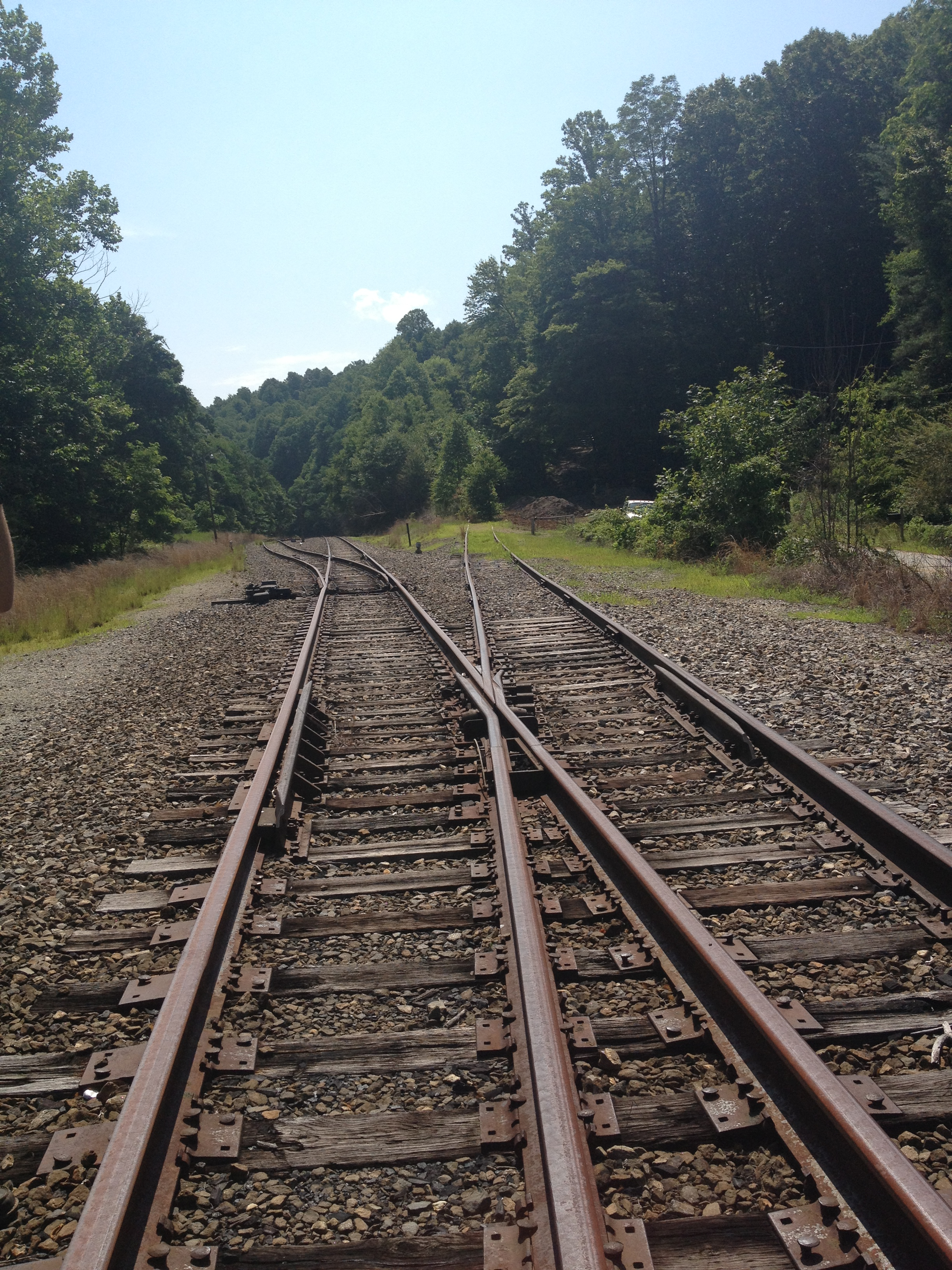 Saluda Grade at Pearsons Gate Summer 2013. Looking East, standing on mainline / runaway switch. Runaway track is to right, helper lead to left.